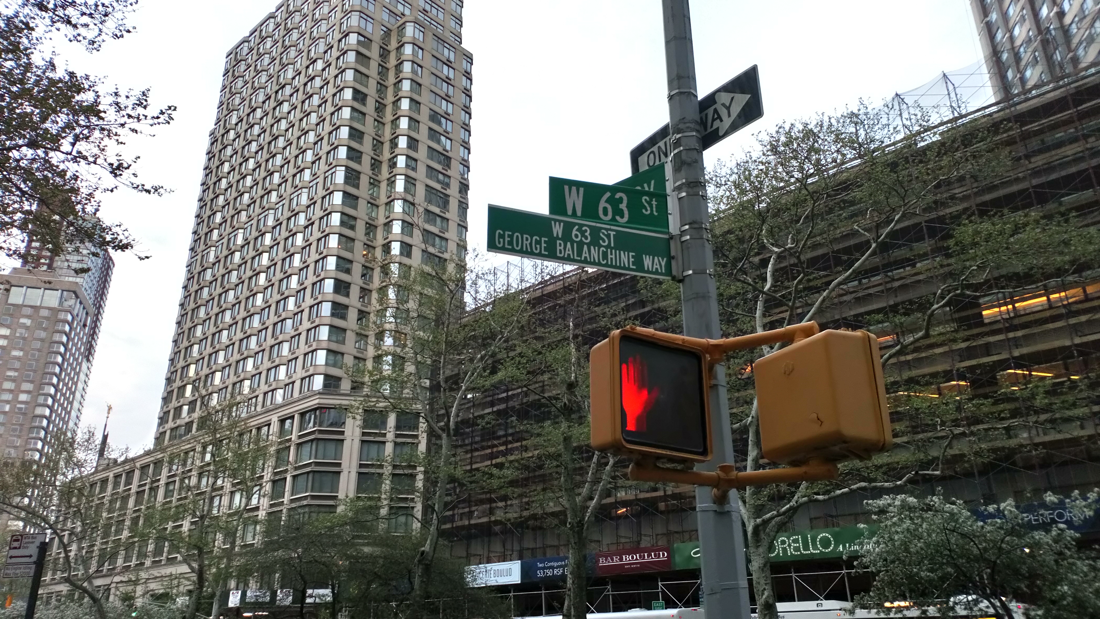 NYC, the United States of America